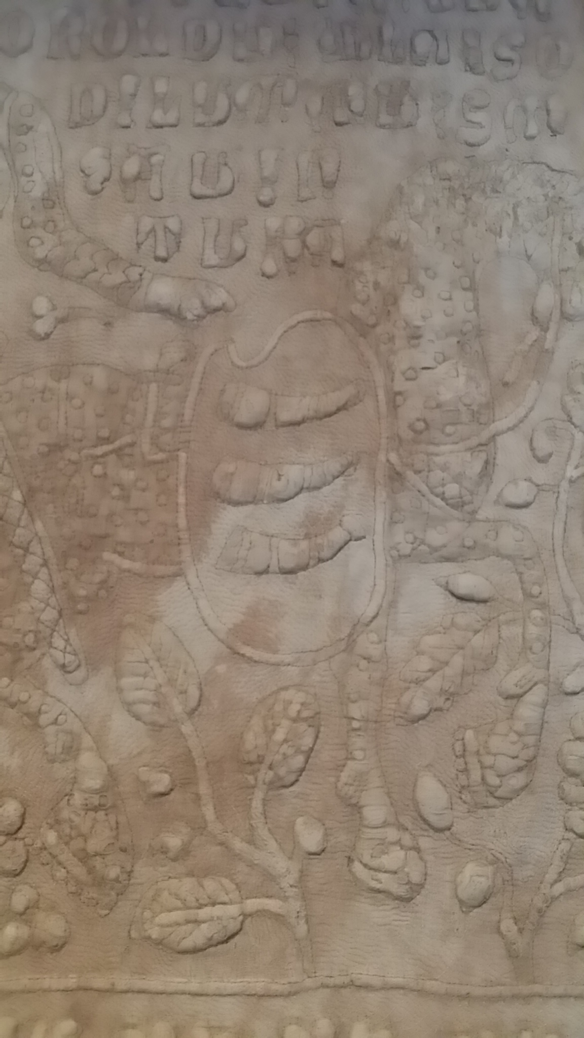 Photograph of the 14th century Tristan Quilt on display at the V&A Museum.